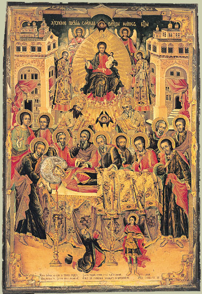 Assumption of the Virgin, by Zahari Zograf (1838), from the Holy Virgin Church in Koprivshitsa